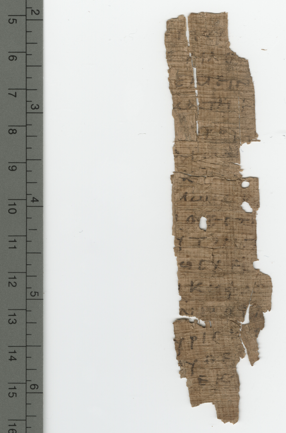 Papyrus 119 V